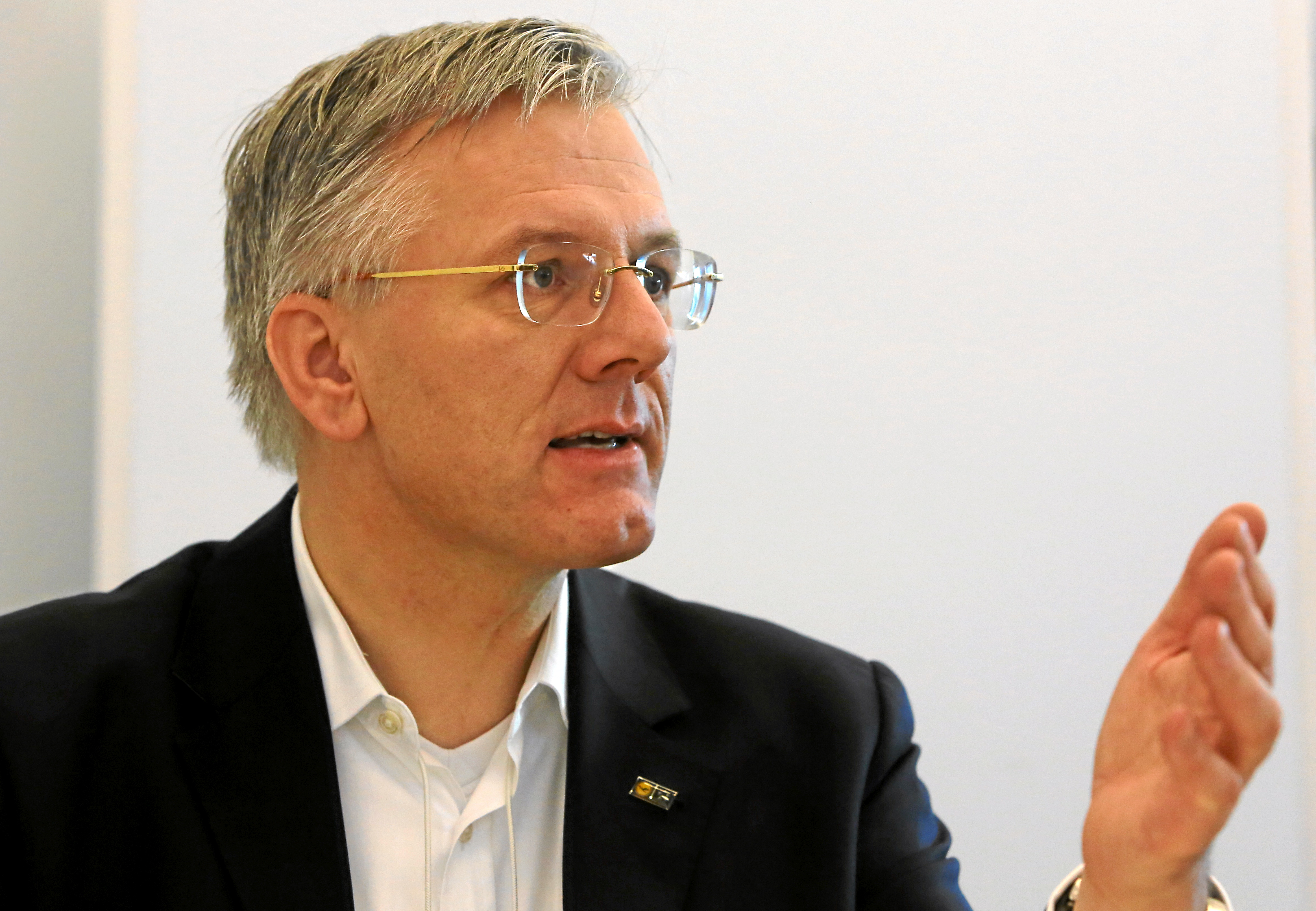 DAVOS/SWITZERLAND, 24JAN13 - Christoph Franz, Chairman and Chief Executive Officer, Deutsche Lufthansa, Germany, during the session 'Rebuilding Europe's Competitiveness' at the Annual Meeting 2013 of the World Economic Forum in Davos, Switzerland, January 24, 2013.. . Copyright by World Economic Forum. . Monika Flueckiger